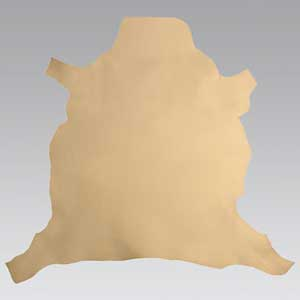 sheep leather